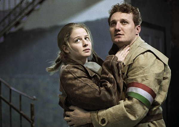 Dóra Kakasy and Zoltán Hayth on the the movie 'Csendkút'.